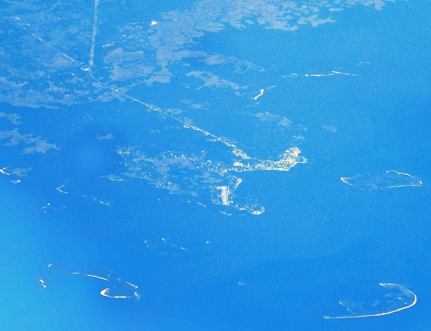 Aerial view of Cedar Key, Florida as seen from jet window 4/1/2007.